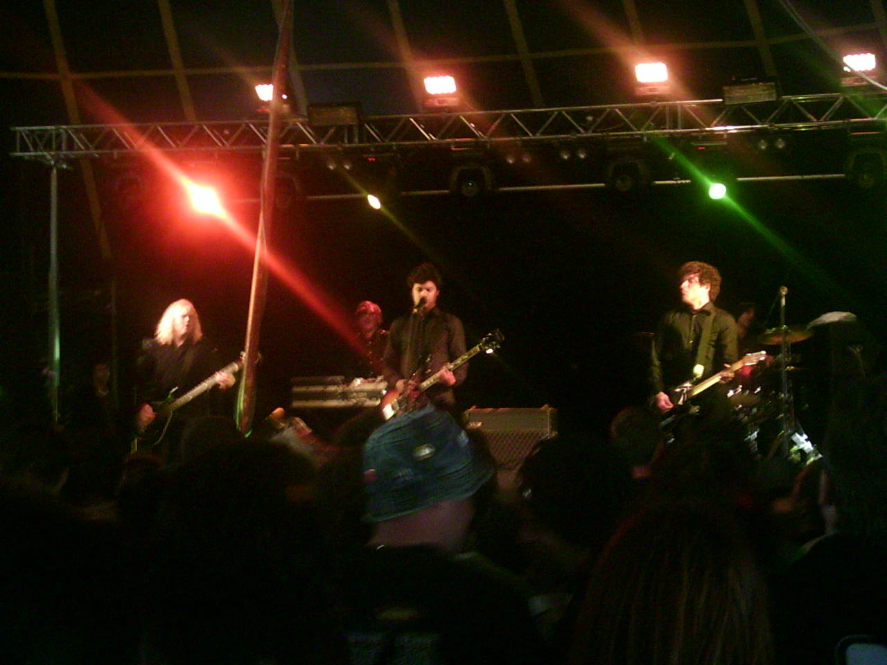 Swedish band Caesars performing at the Leeds Festival, England, 2005.